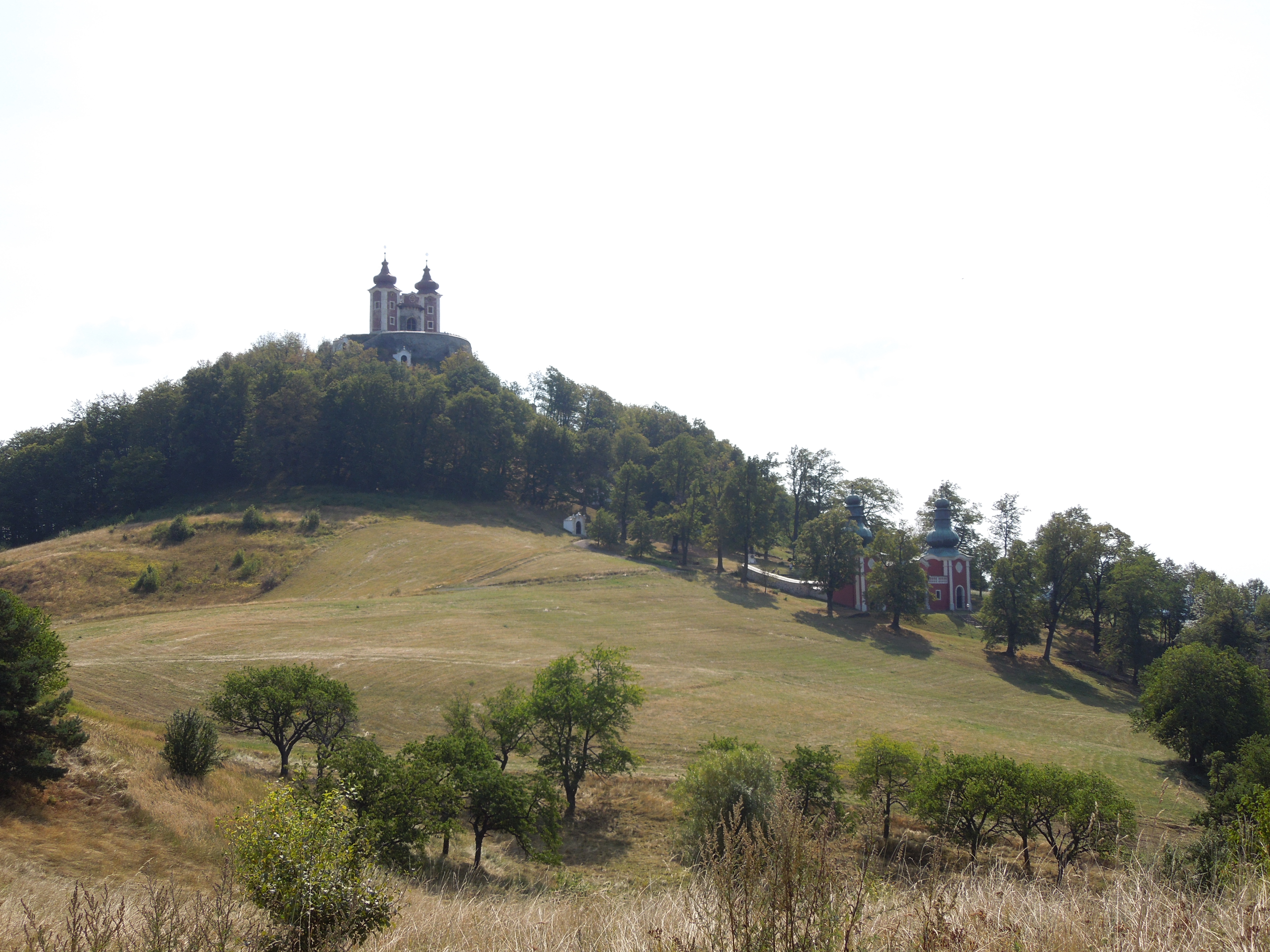 Calvary Banská Štiavnica